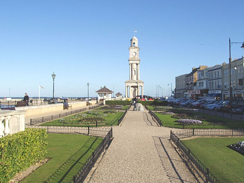 Clock tower in Herne Bay, Kent